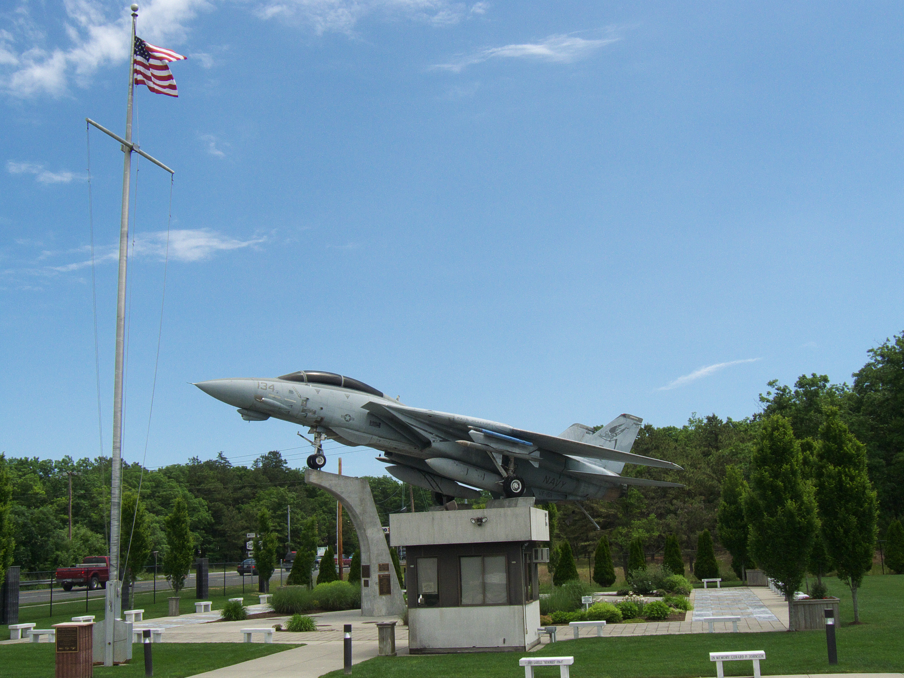 A Grumman F-14A-105-GR Tomcat (BuNo 160902) on static display pedestal at Grumman Memorial Park, Town of Riverhead, Calverton, New York, in 2007.